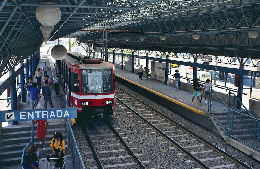 A northbound light rail car at the Unidad Deportiva station of Guadalajara's SITEUR light rail system in 1990.